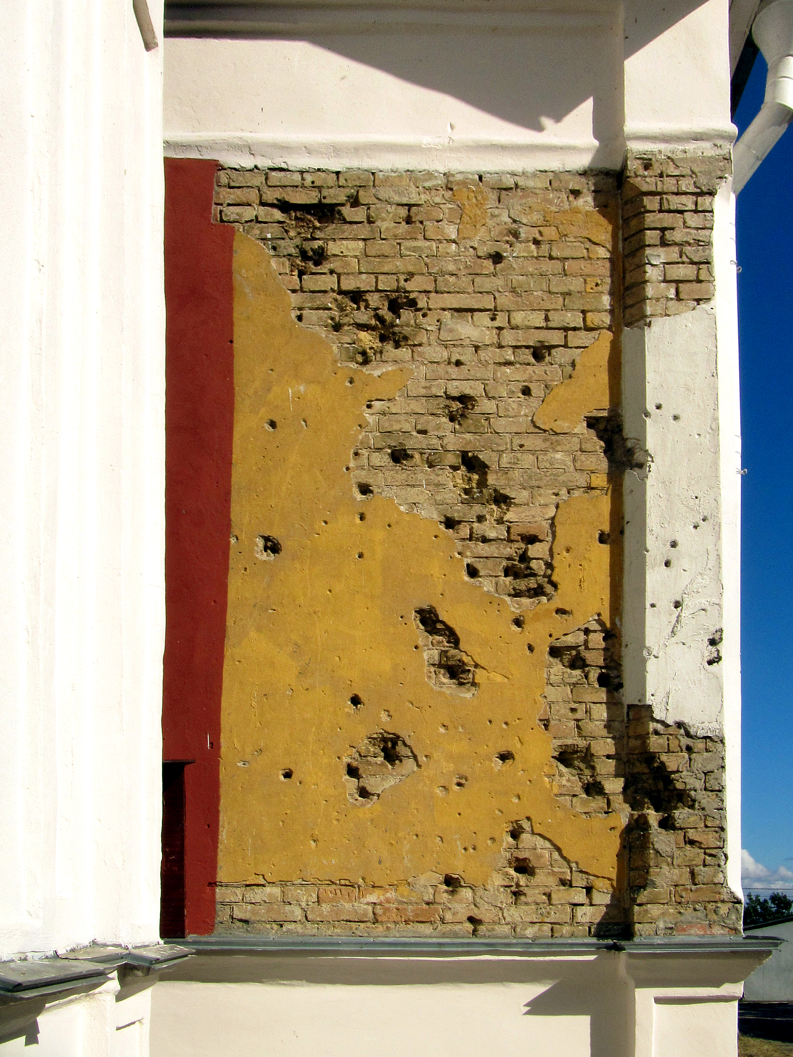 Ukraine, Vyshhorod. Church of Saints Borys and Hlib. Part of the wall that was left untouched to preserve the memory of the World War II.